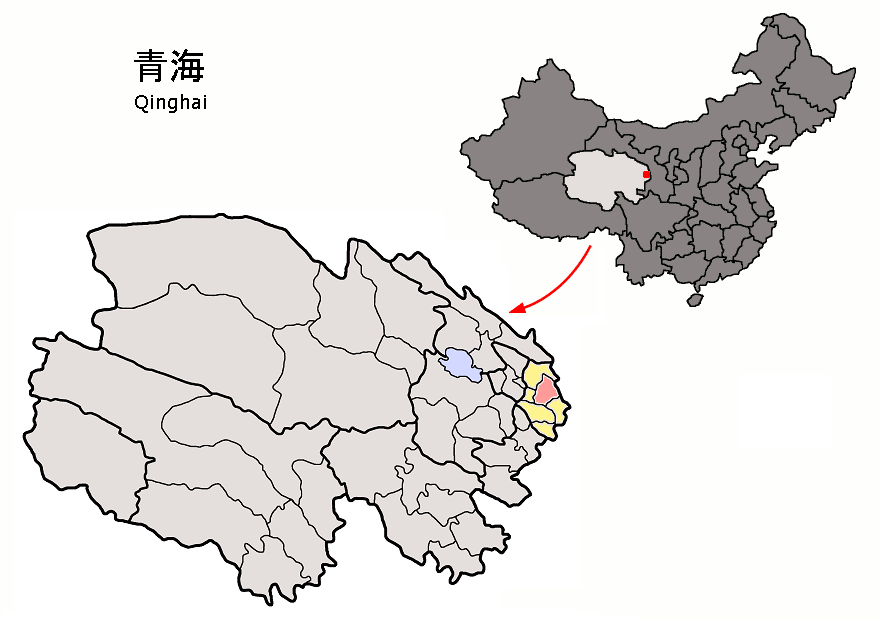 Location of Ledu County (pink) and Haidong Prefecture (yellow) within Qinghai province of China Map drawn in september 2007 using various sources, mainly : Qinghai province administrative regions GIS data: 1:1M, County level, 1990 Qinghai Counties map from "Plateau Perspectives" (the limits of some county-level subdivisions may not be accurate)